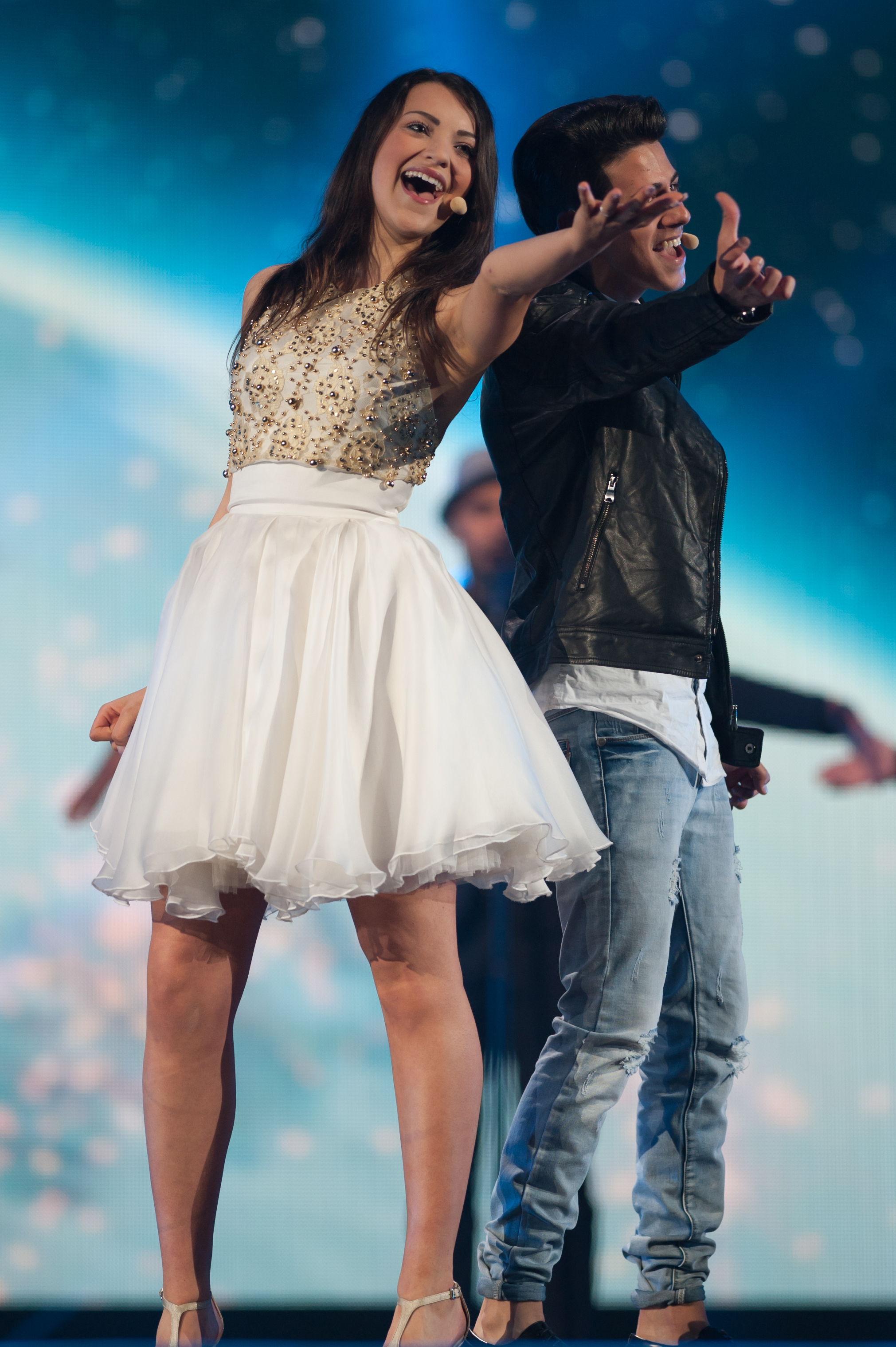 Eurovision Song Contest Vienna 2015: Michele Perniola & Anita Simoncini